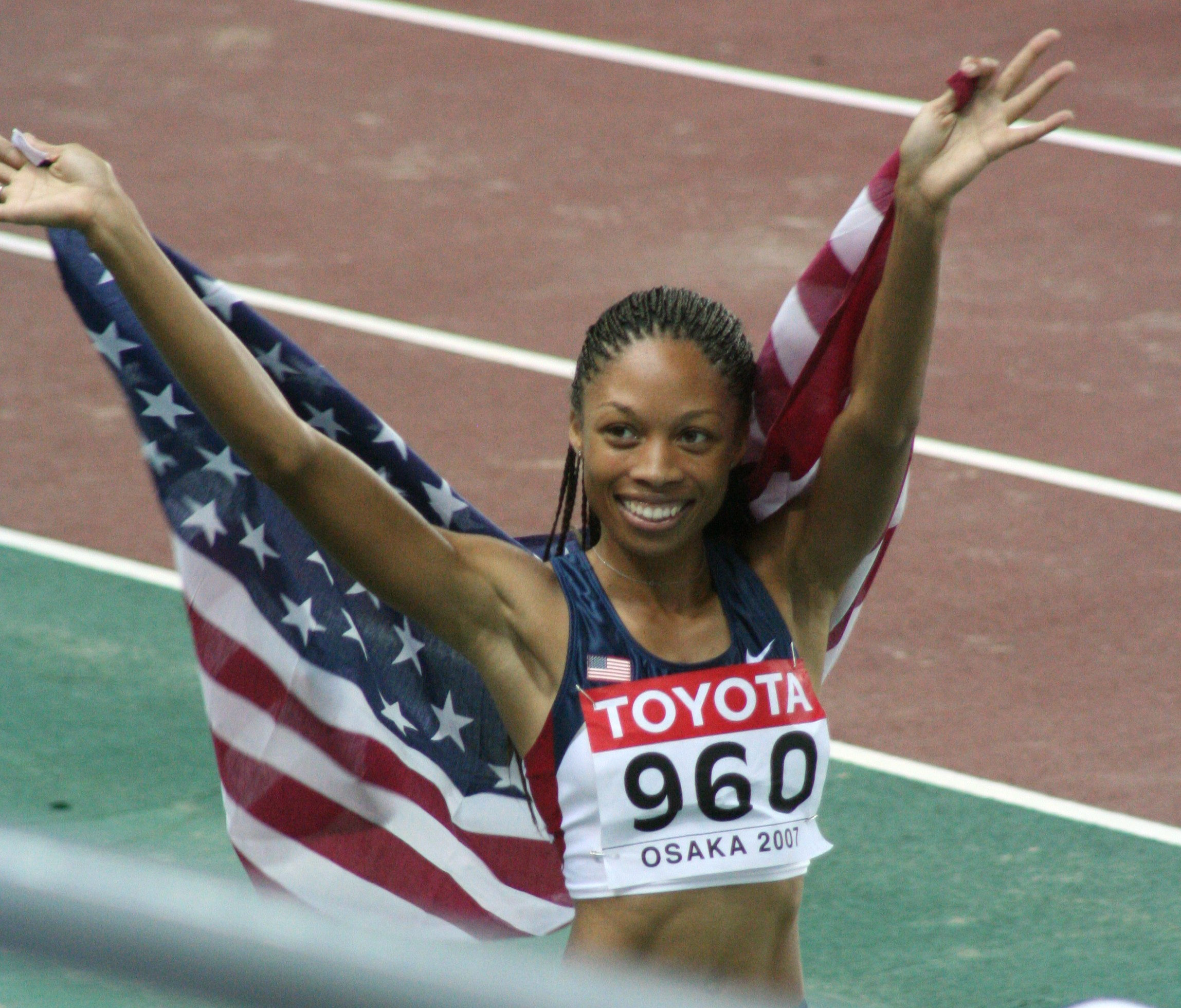 World Athletics Championships 2007 in Osaka - Allyson Felix celebrating after winning the women*s 200 metres